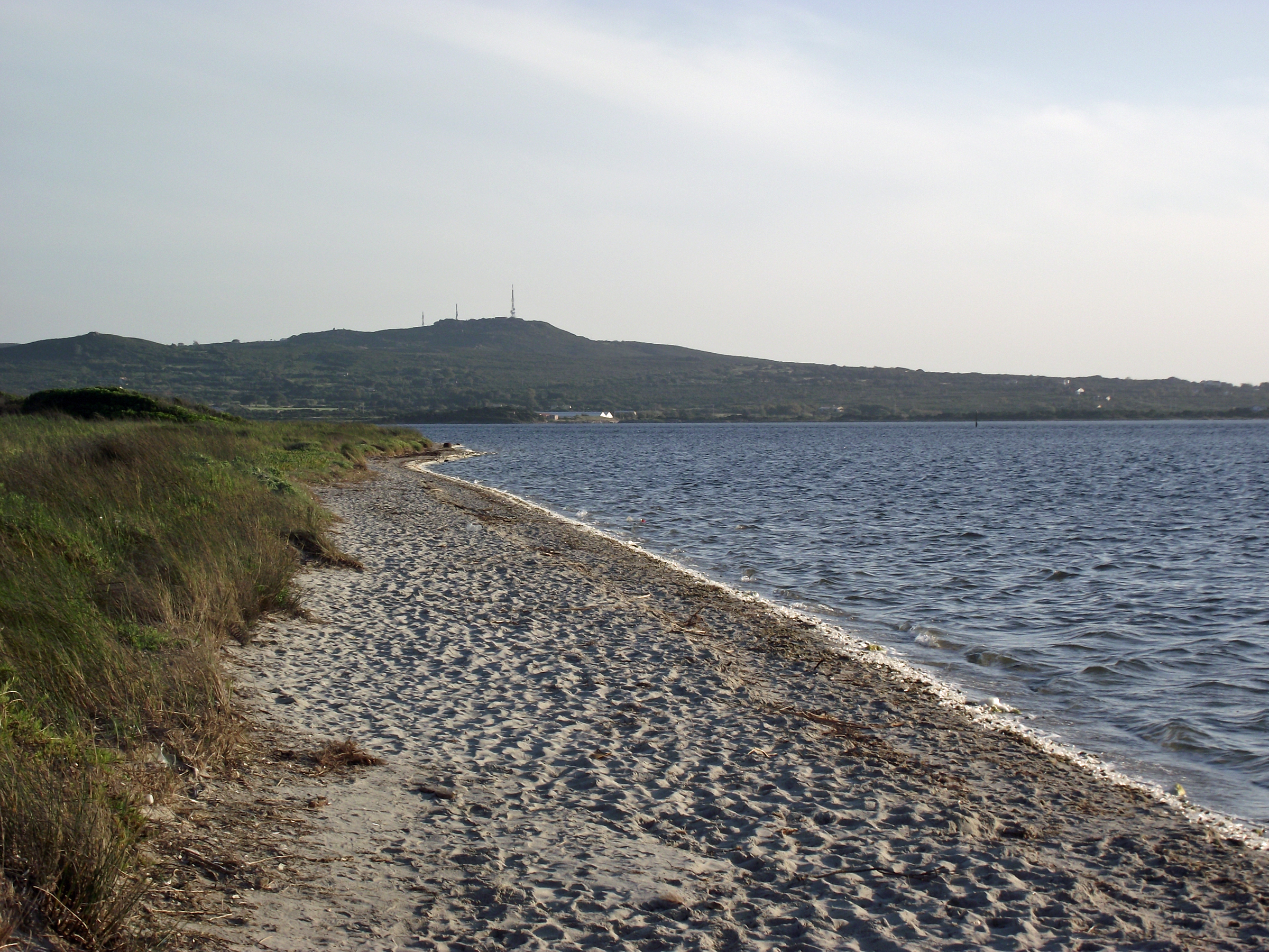 The tiny beach of Punt'e Trettu, in San Giovanni Suergiu, Sardinia, Italy